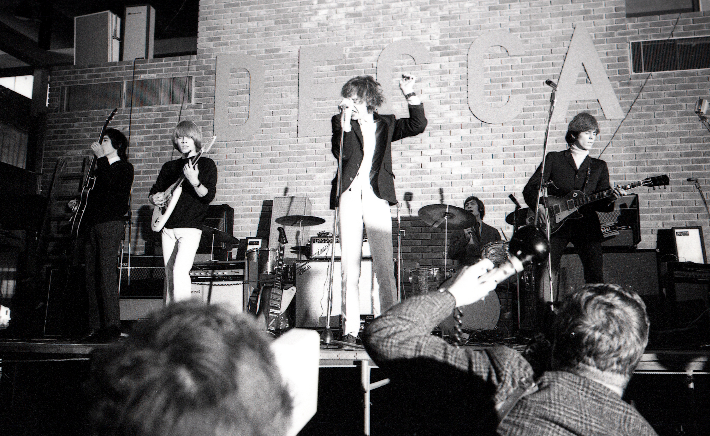 The Rolling Stones in concert in Oslo in 1965.